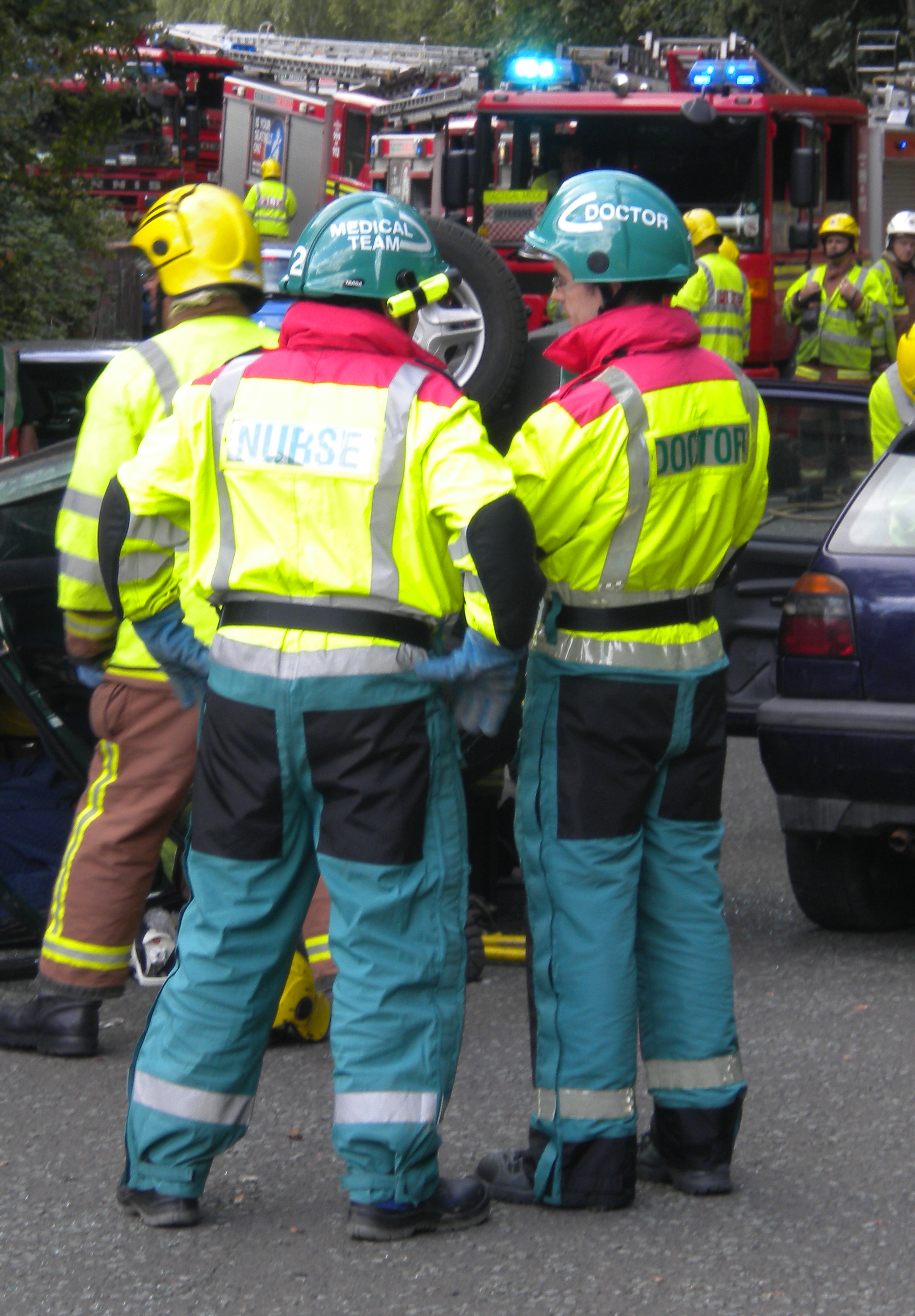 This photo shows a doctor and nurse from the West Midlands CARE team in their uniform, at the scene of a mock-up road traffic collision.